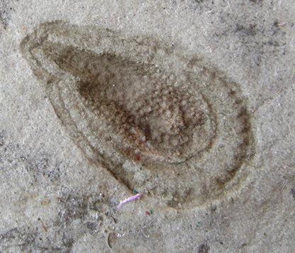 Fossil of Kimberella quadrata